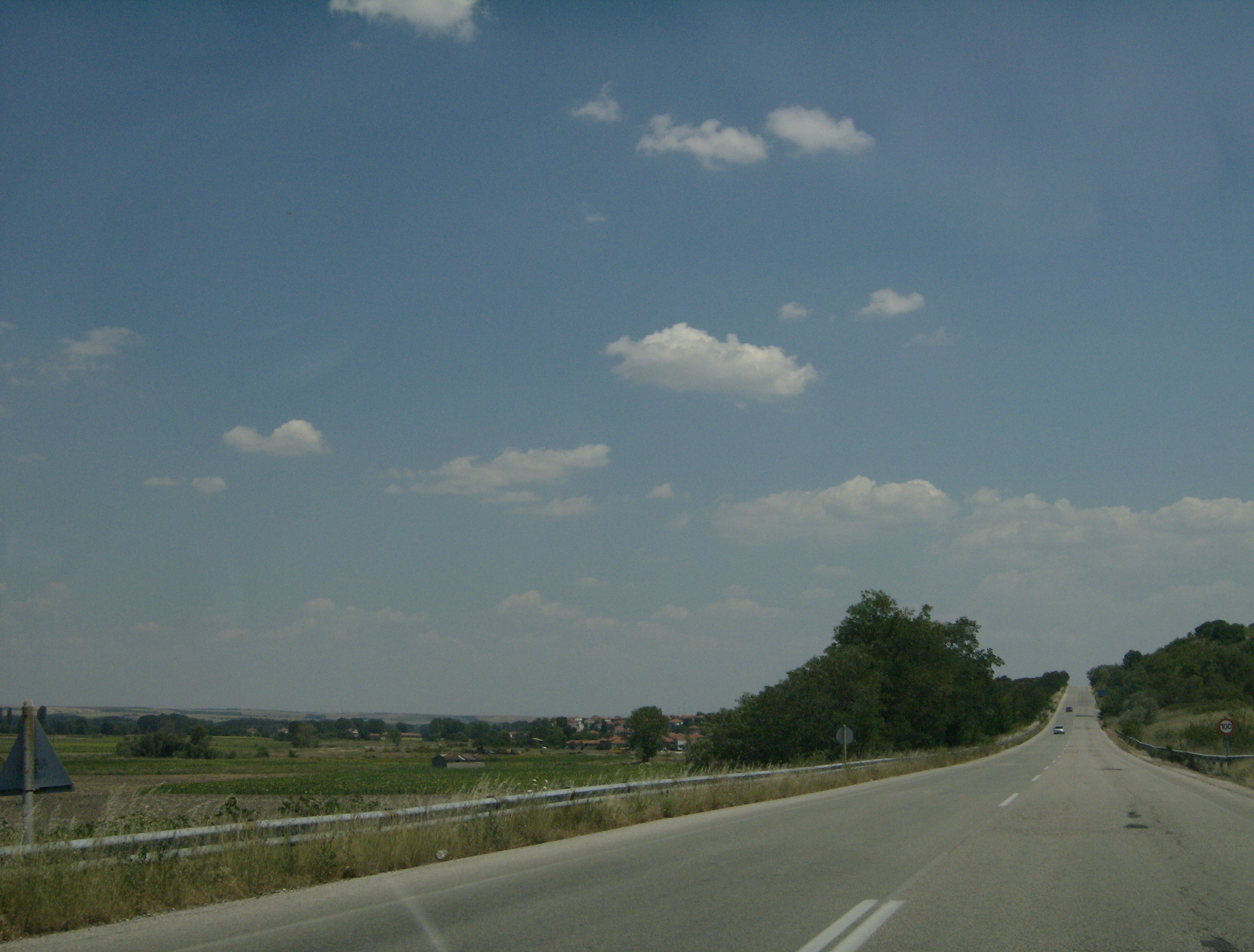 Ormenio